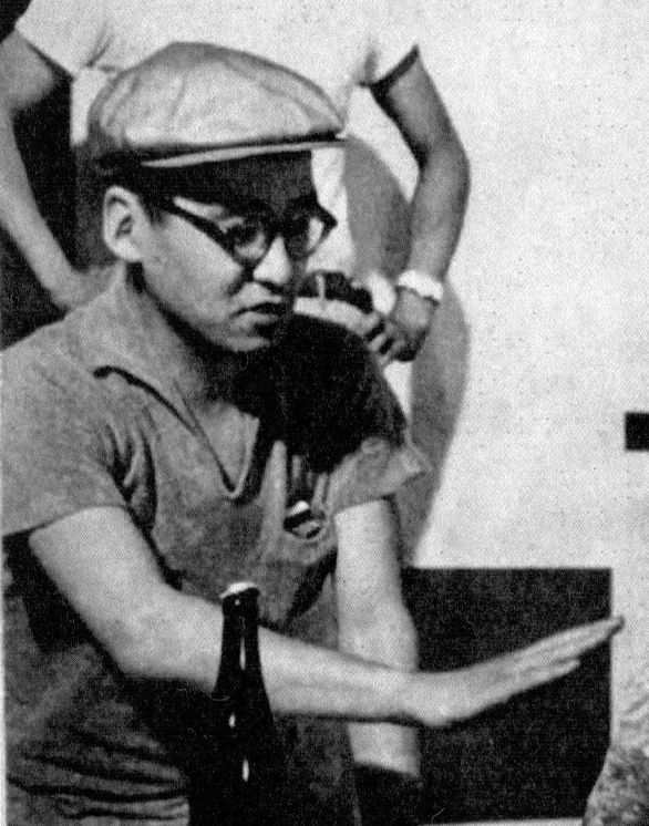 Yasuzo Masumura